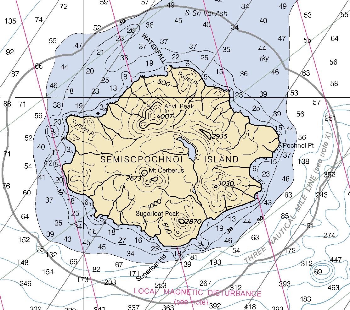 Semisipochnoi from NOAA nautical chart 16460, IGITKIN ISLAND TO SEMISOPOCHNOI ISLAND.